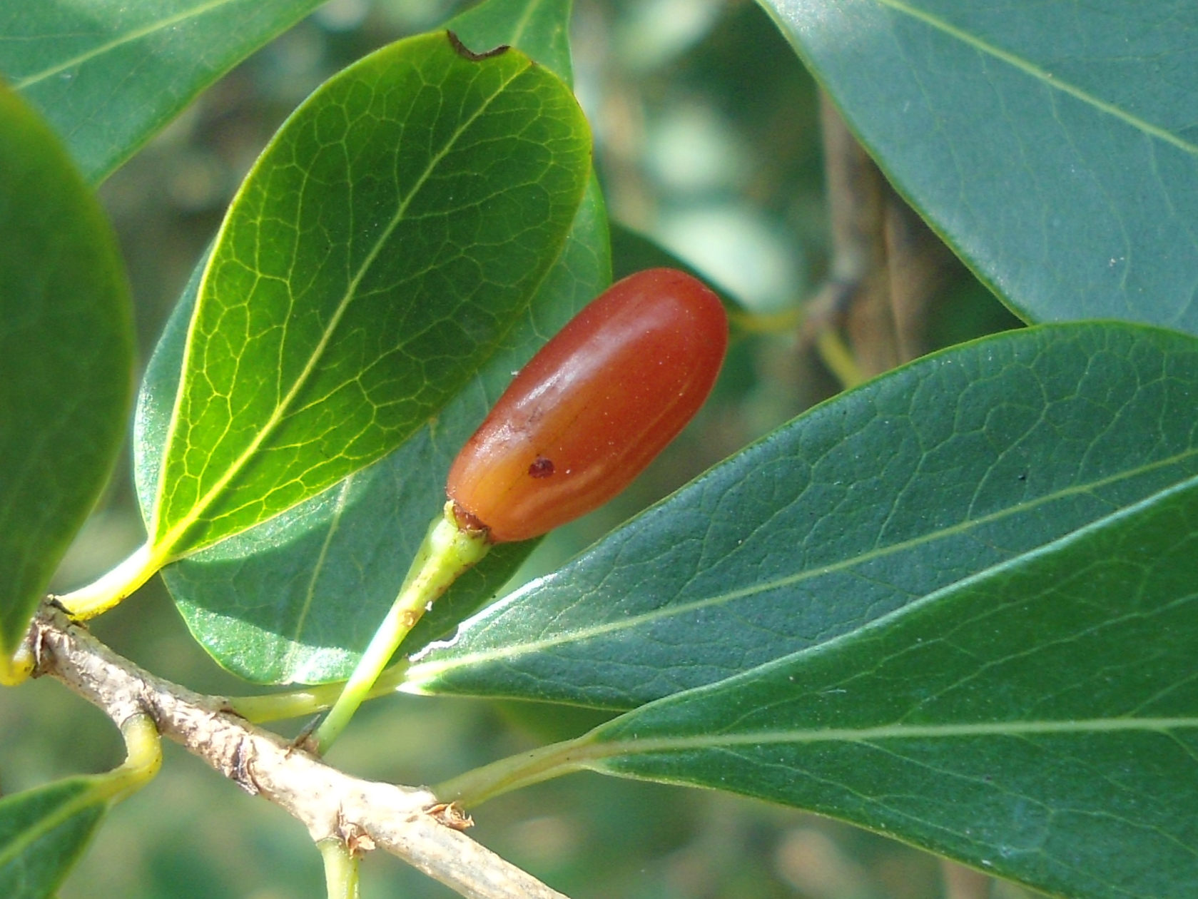 (Erythroxylum monogynum) Red cedar fruit at Kambalakonda wildlife sanctuary, Visakhapatnam (KWS/RE/12/03)